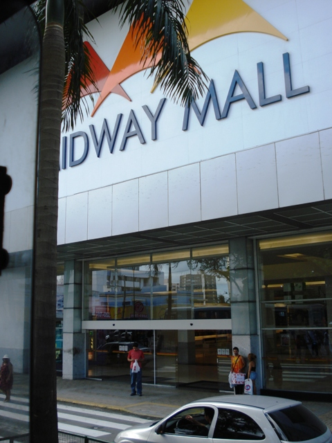 Shopping Midway Mall em Natal, Rio Grande do Norte, Brasil. Shopping mall Midway Mall in Natal, Rio Grande do Norte, Brasil